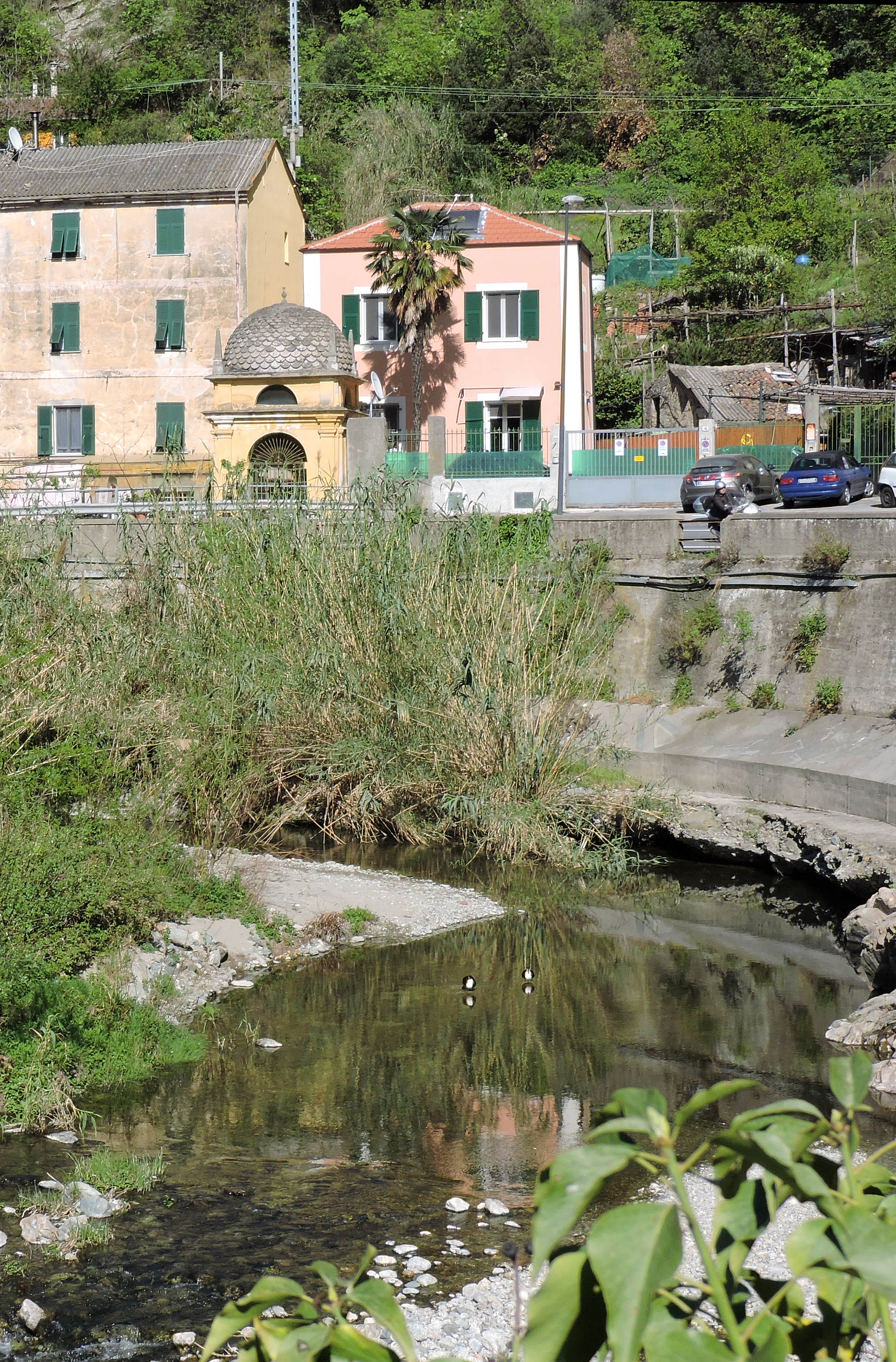 The Letimbro between Santuario di Nostra Signora della Misericordia and Savona centre (SV)